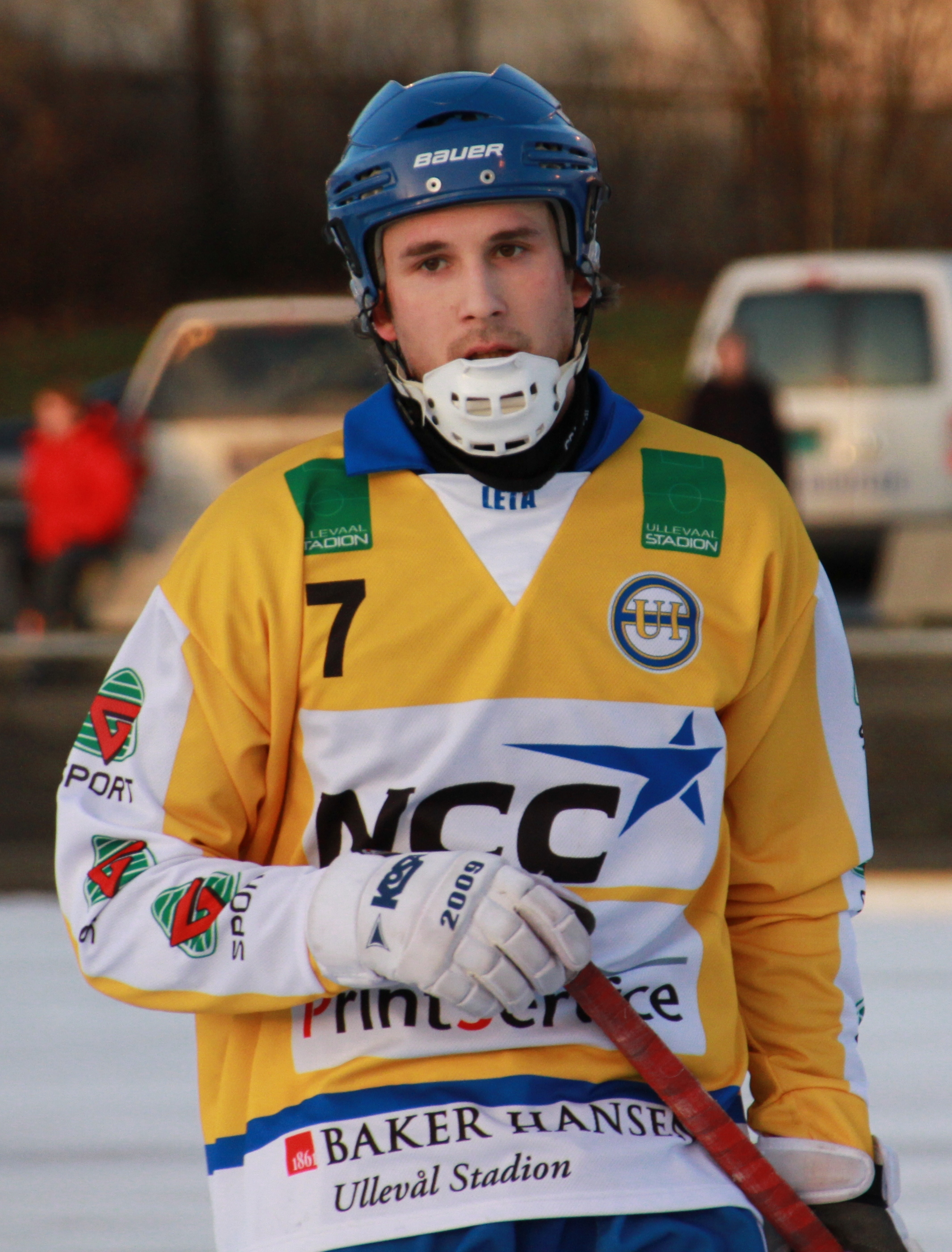 Bandy player representing the club Ullevaal Bandy (Oslo). Photo from December 26, 2011 match between Ready and Ullevaal Bandy, at Gressbanen Arena, Oslo.